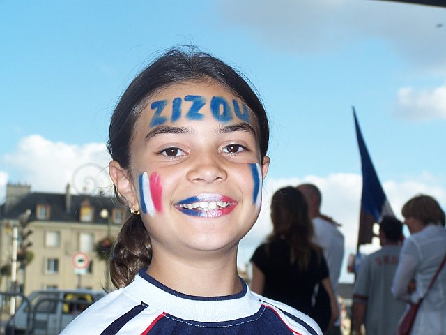 A young French girl celebrating Zinedine Zidane during the 2006 World Cup